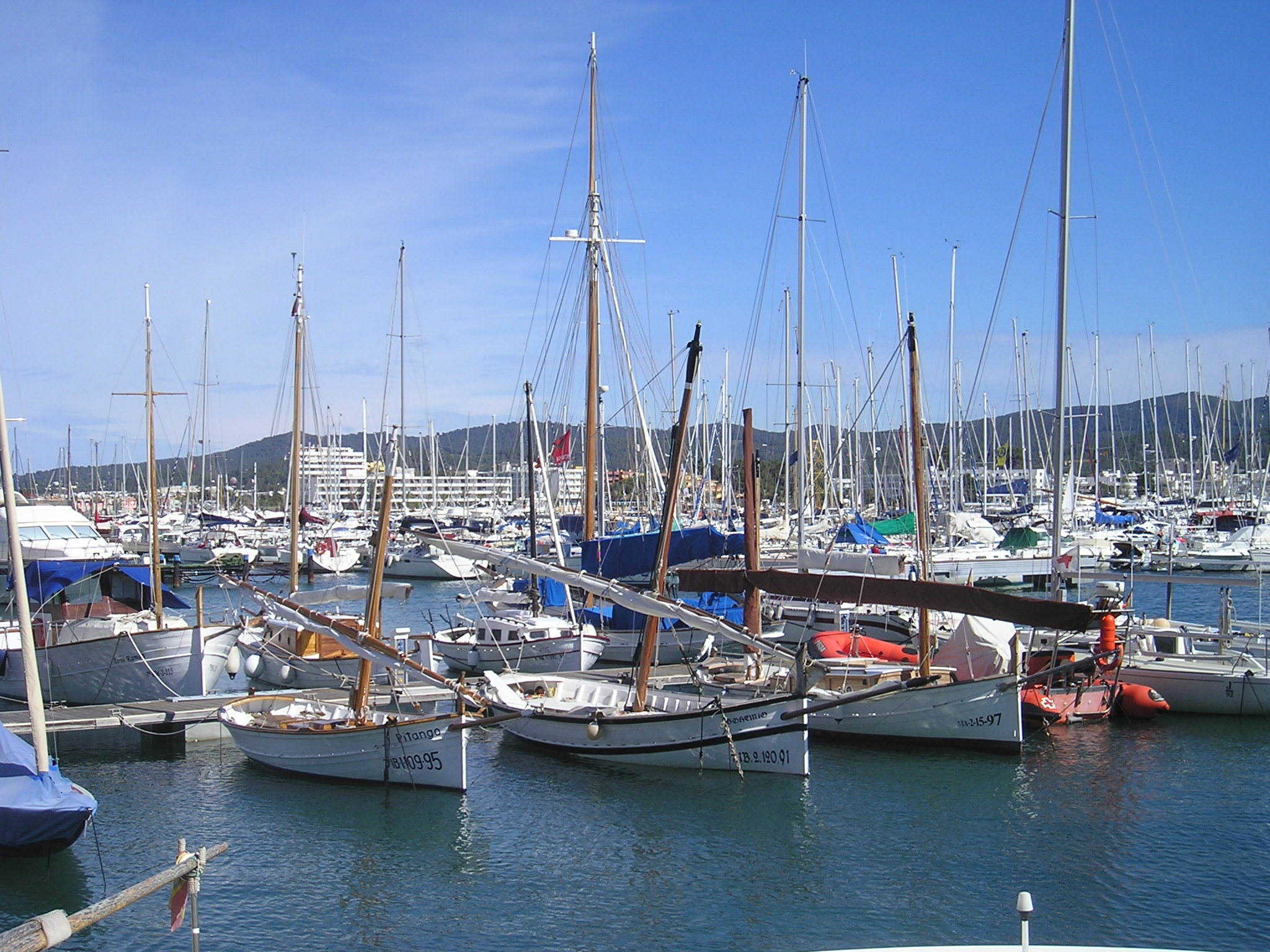 Llauts, two of them with lateen, boats in the harbor of Sant Antoni de Portmany, Ibiza/Spain